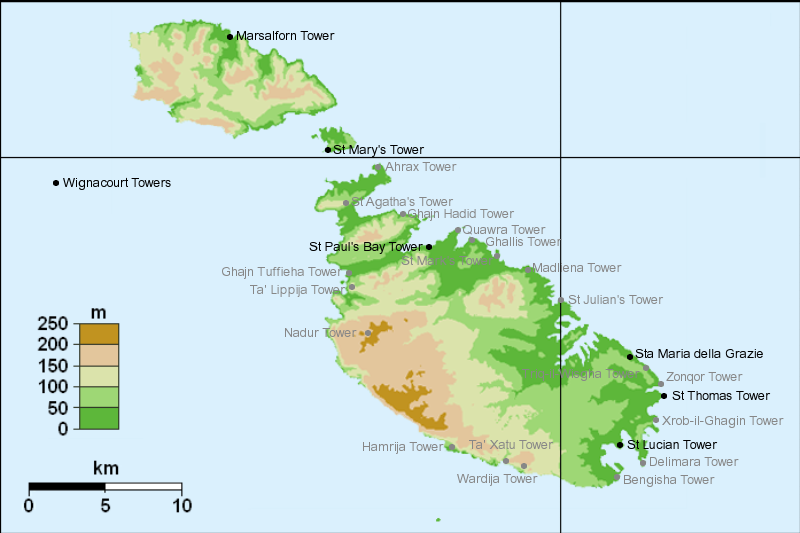 Wignacourt Towers in Malta. Content based on Quentin Hughes: Malta: a guide to the fortification, 1993 and Stephen C. Spiteri: Fortresses of the Knights, 2001